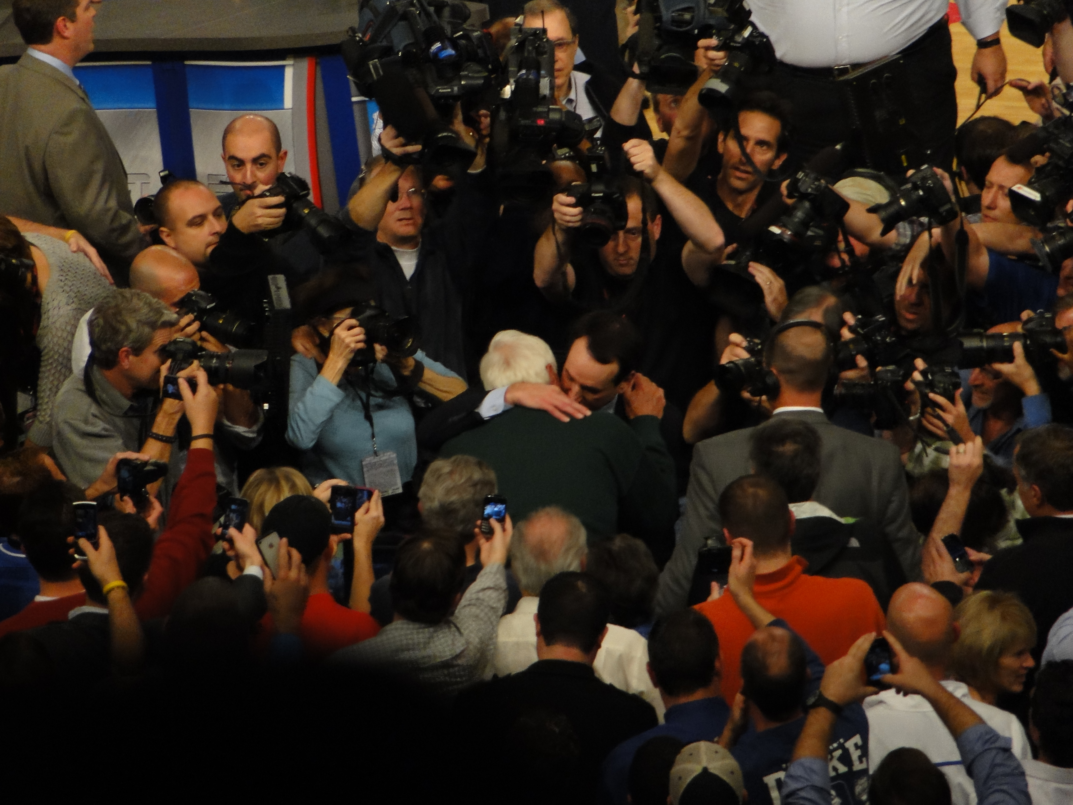 Coach K embraces mentor Bob Knight after passing him for the all time Division I men's basketball wins list.